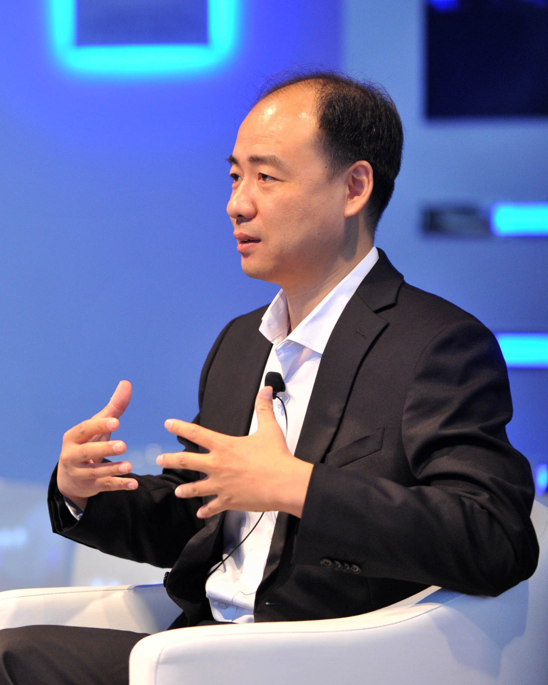 Ma Jun, Director, Institute of Public and Environmental Affairs, People's Republic of China at the Annual Meeting of the New Champions in Tianjin, China 2012